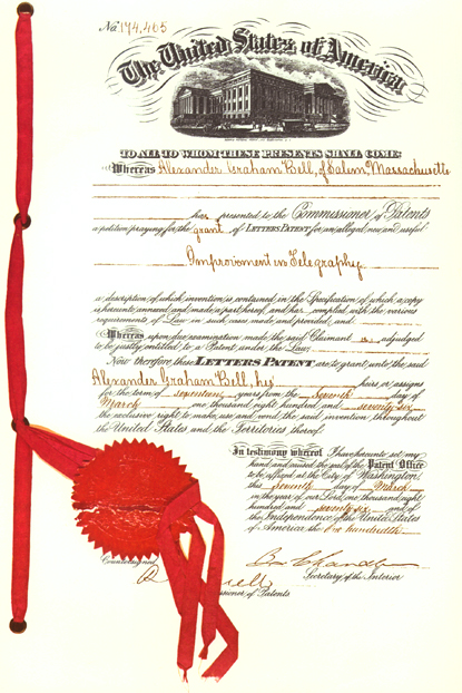 An image of the master telephone patent awarded to Alexander Graham Bell. The patent was arguably the most valuable every awarded in history.